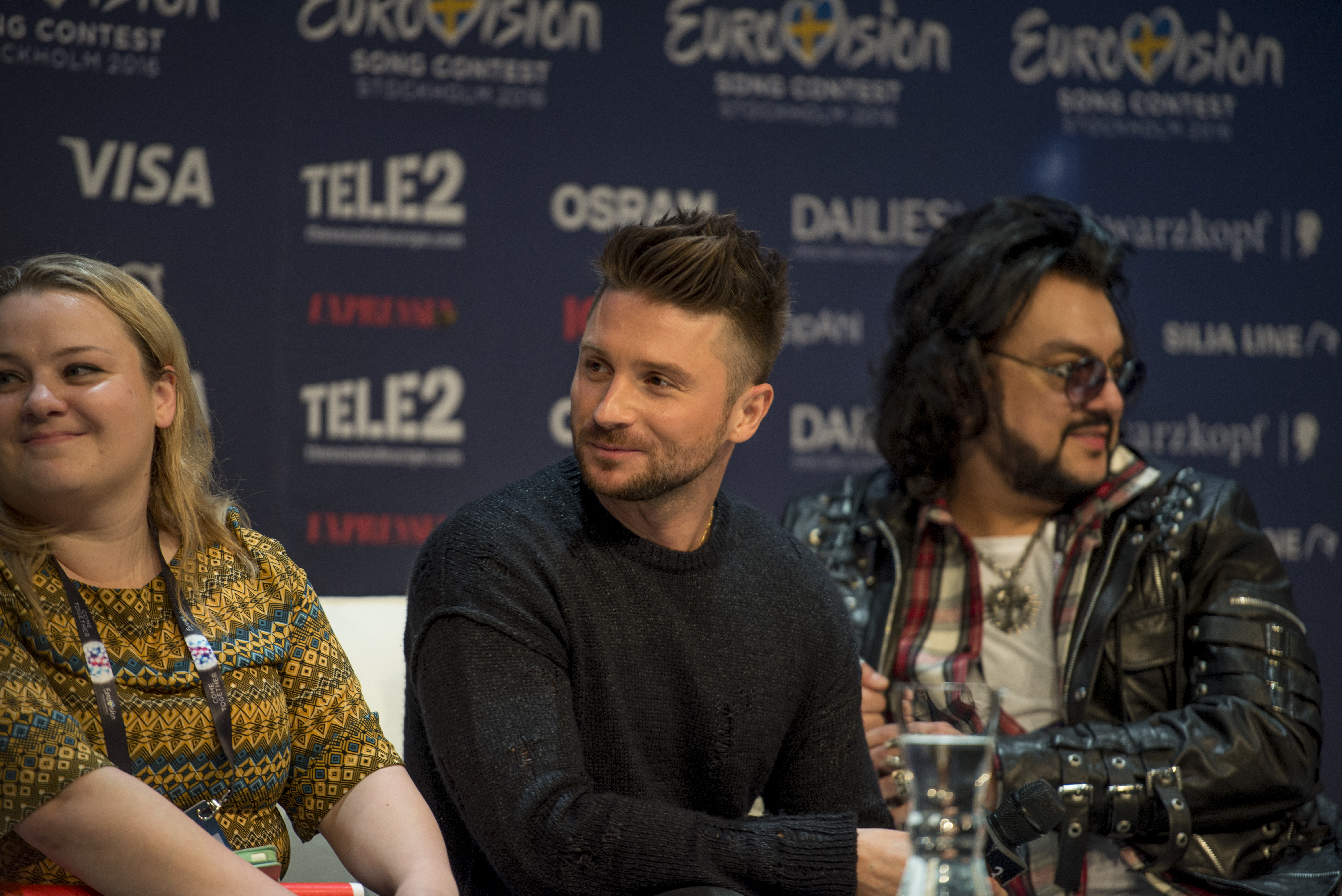 Sergey Lazarev at a Meet & Greet during the Eurovision Song Contest 2016 in Stockholm. (Help translate this text)